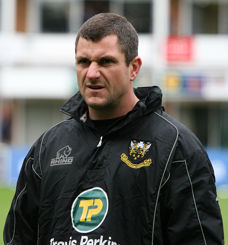 Paul Grayson at the Northampton Saints vs Sale Sharks match, Franklin's Gardens 24th October 2009